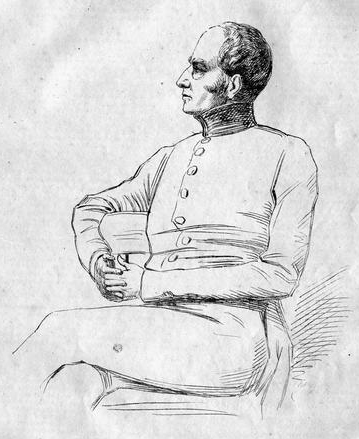 Portrait of Sir George Gipps 1791-1847, governor of New South Wales; also of New Zealand